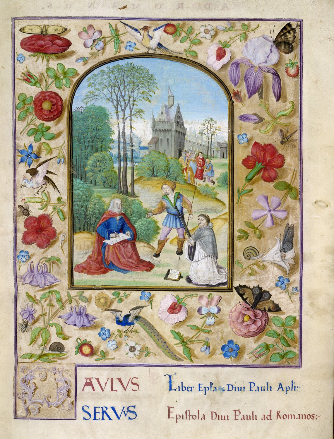 British Library MS. Royal 1 E V, folio 5, St. Paul Writing His Epistles with John Colet. Reference: Fritz Grossmann (1950). "Holbein, Torrigiano and Some Portraits of Dean Colet: A Study of Holbein's Work in Relation to Sculpture". Journal of the Warburg and Courtauld Institutes 13 (3/4): 202–236.